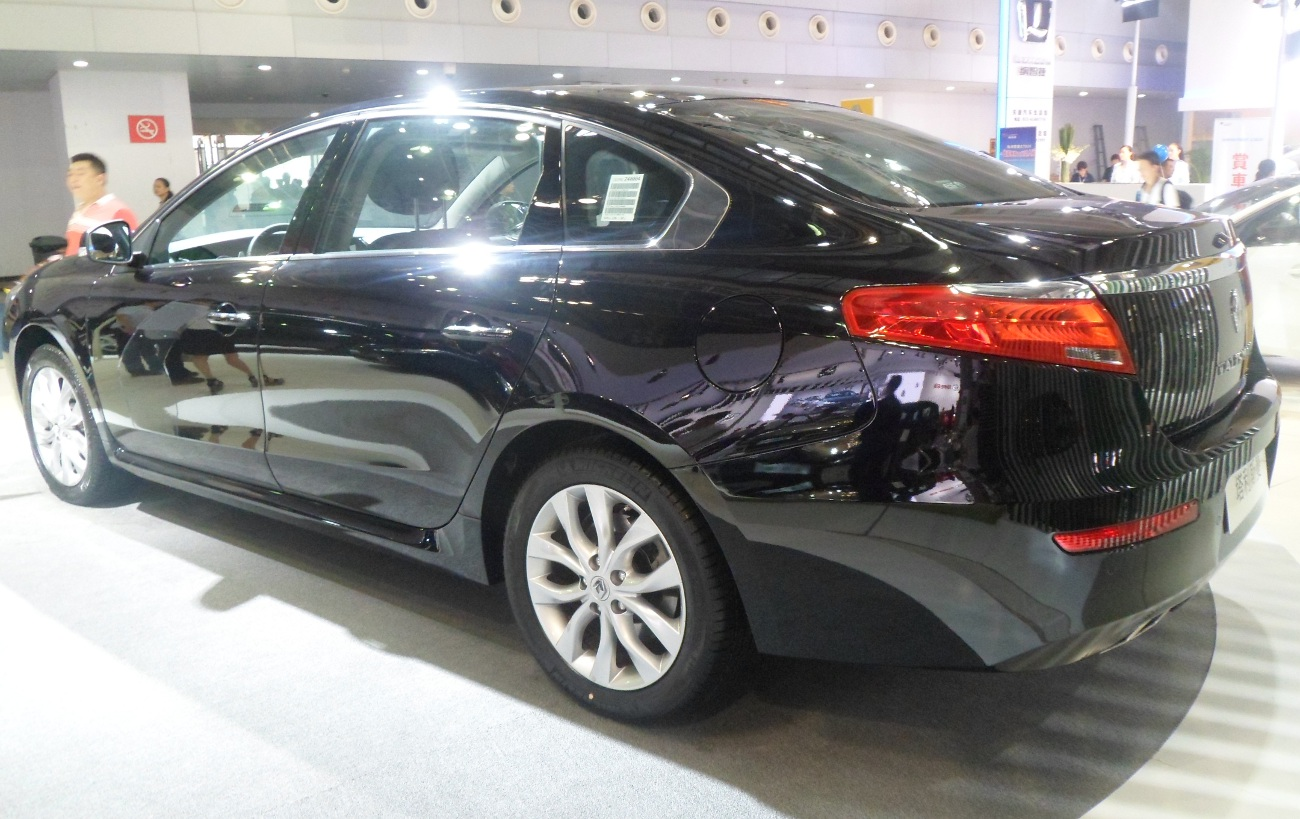 Renault Talisman photographed at the 2012 Chongqing Auto Show, Chongqing, China.